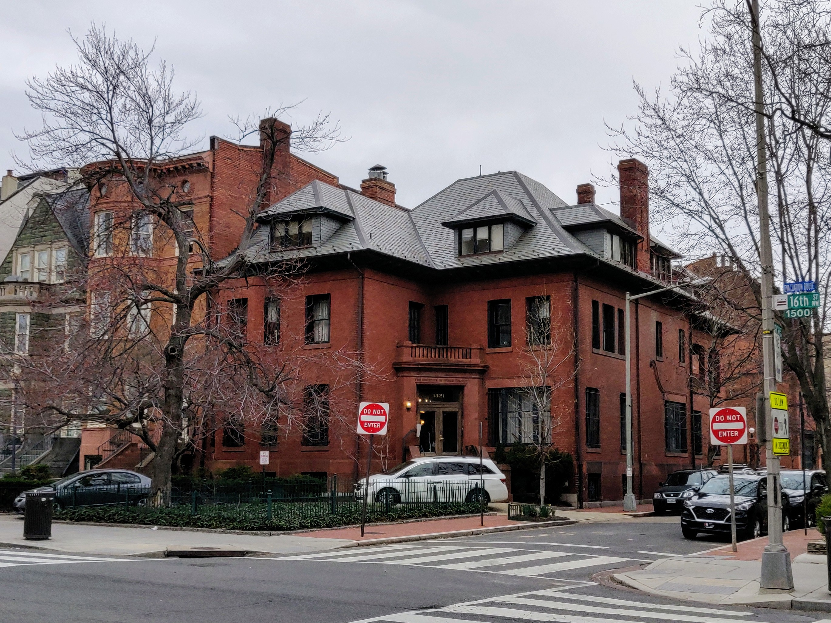 private not-for-profit educational institution